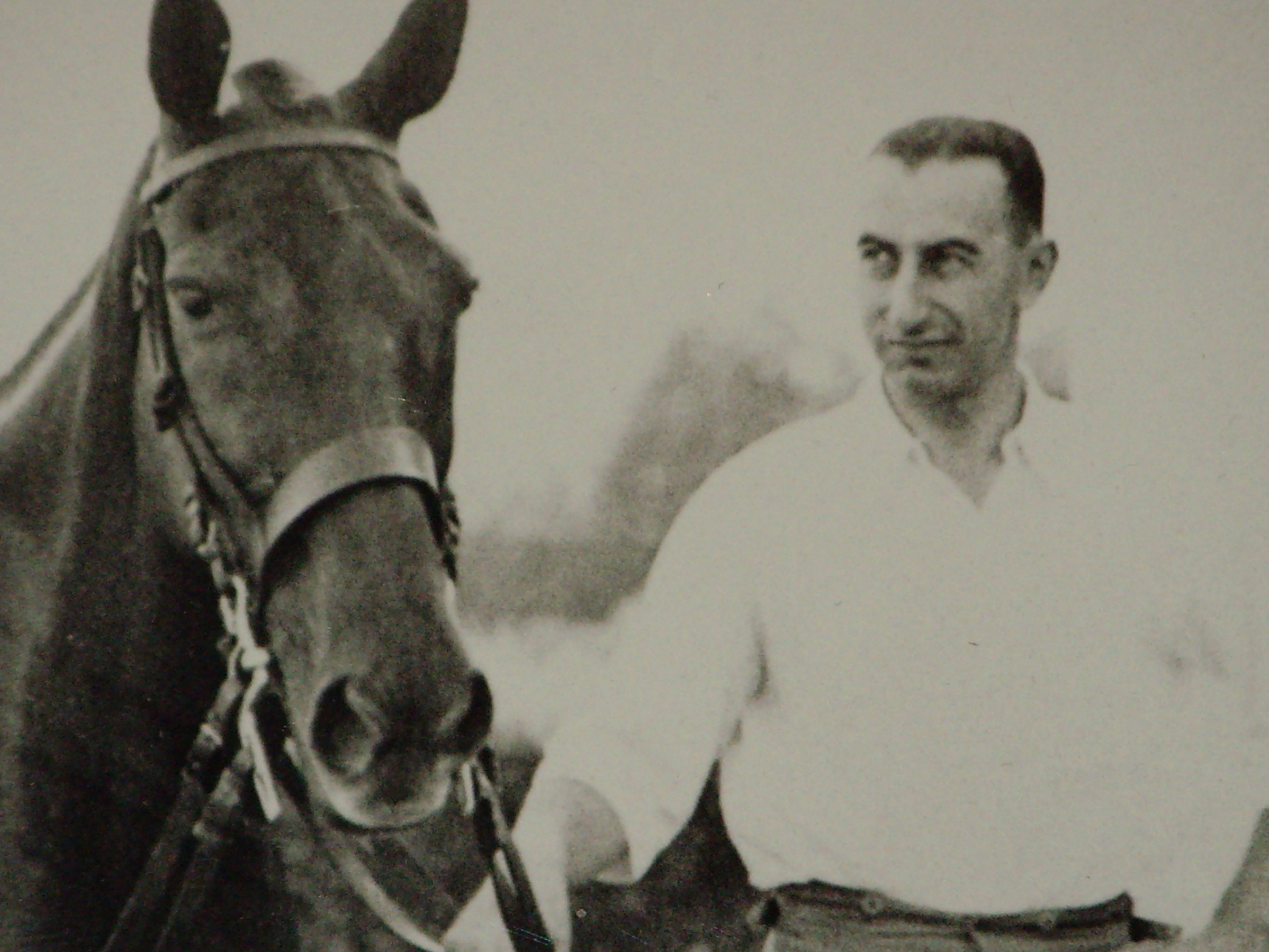 Sydney Jacobson, journalist and editor. Possibly in India in late 1930s.